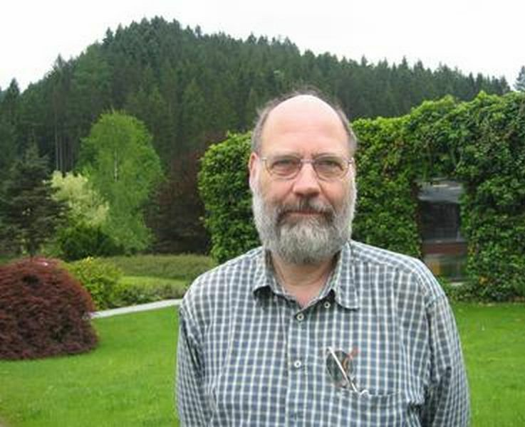 Wolfgang Hackbusch, Oberwolfach 2008